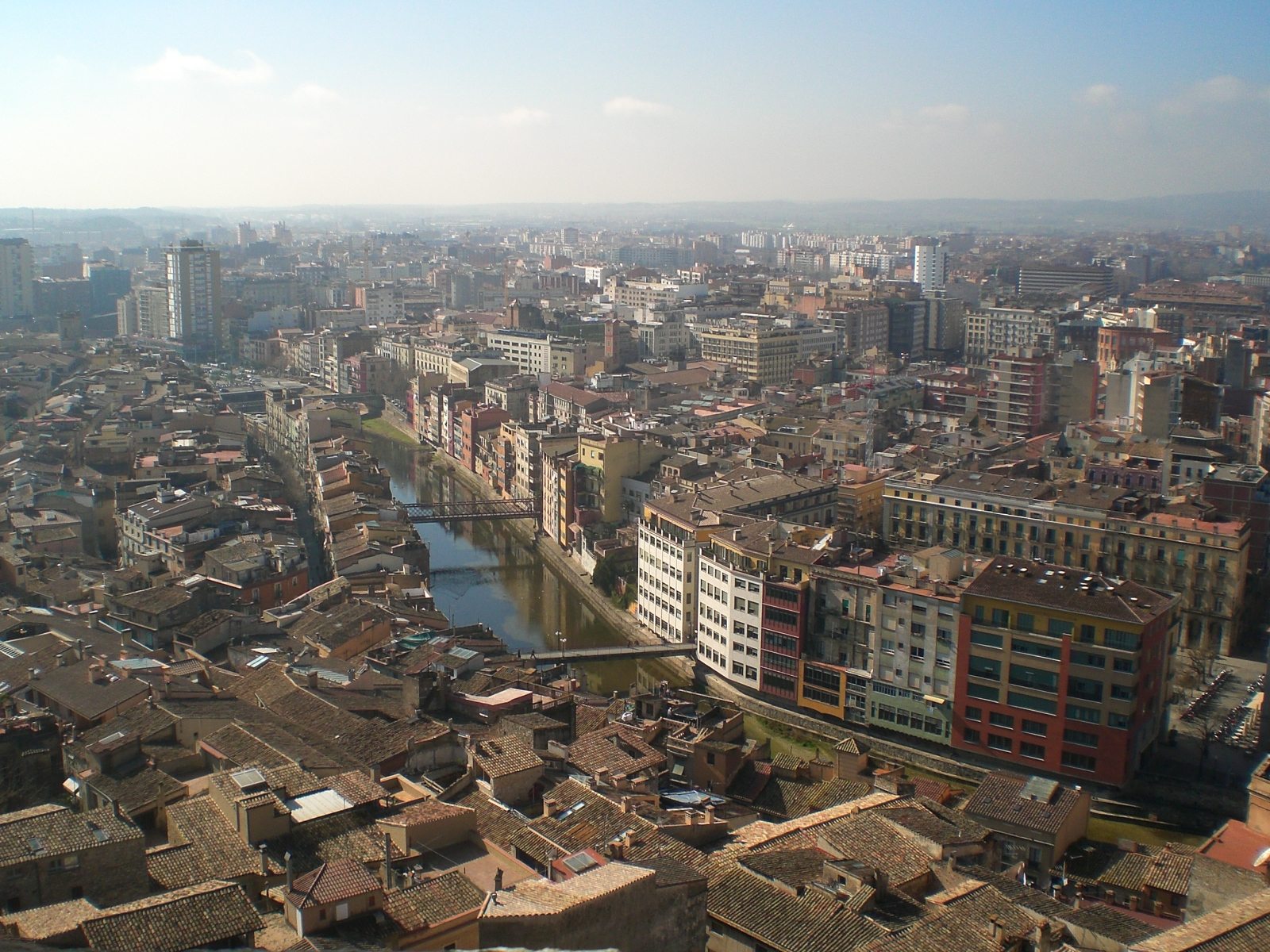 Panoramic view of the city of Gerona/Girona (Spain) from the cathedral's tower.